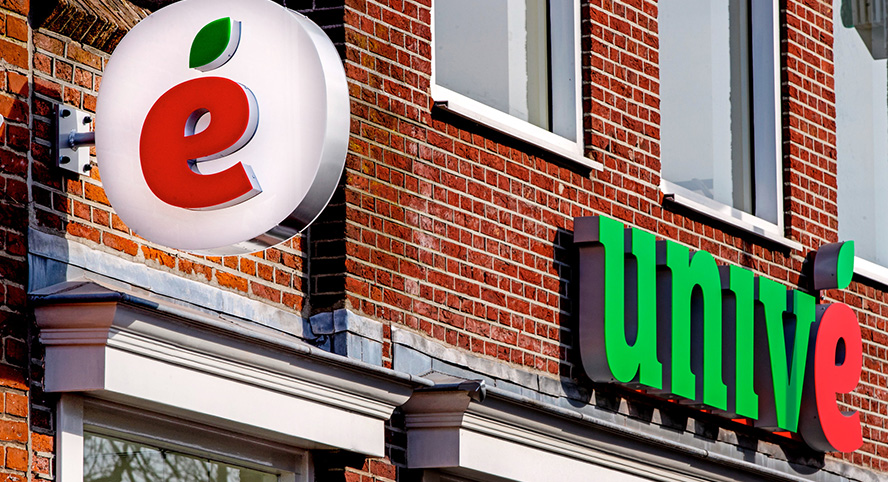 Nieuwe Univé huisstijl op winkelgevel